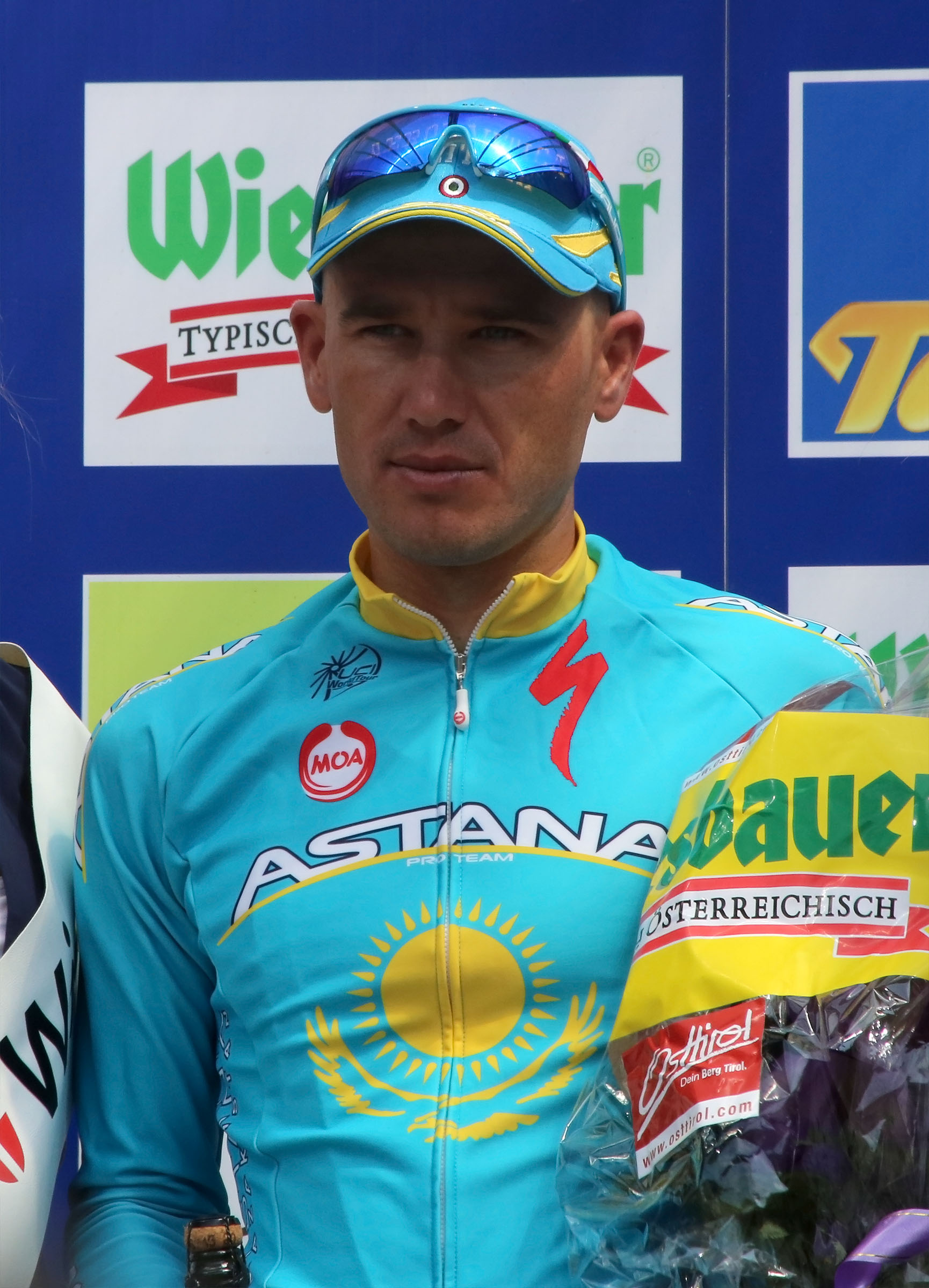 Alexsandr Dyachenko (2nd place) at the award ceremony of the Tour of Austria in Vienna, Austria.